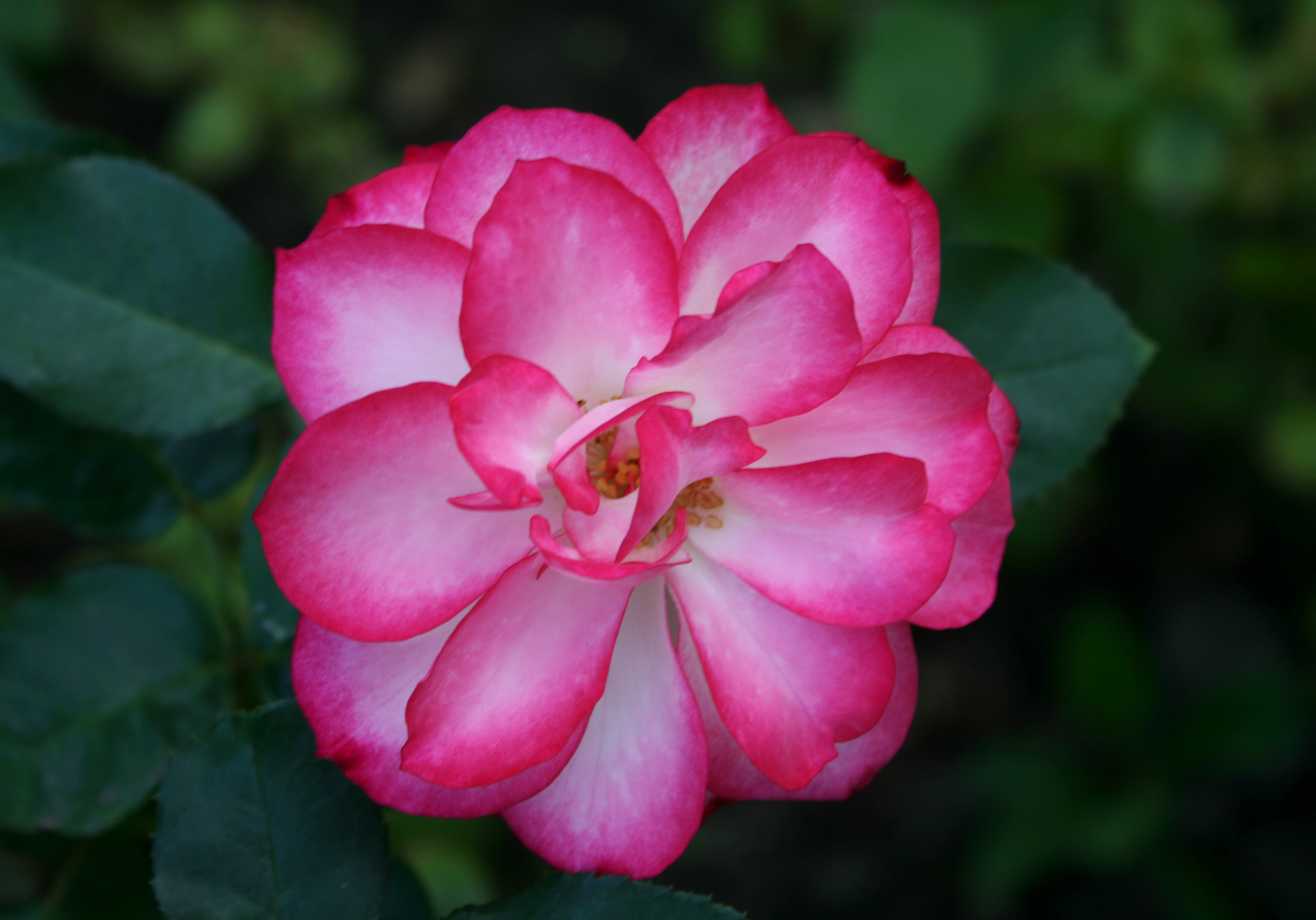 A floribunda rose, 'Tabris'. Belongs to Rosa of Rosaceae. Garden origin.